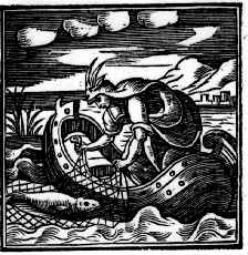 A fisherman at work.